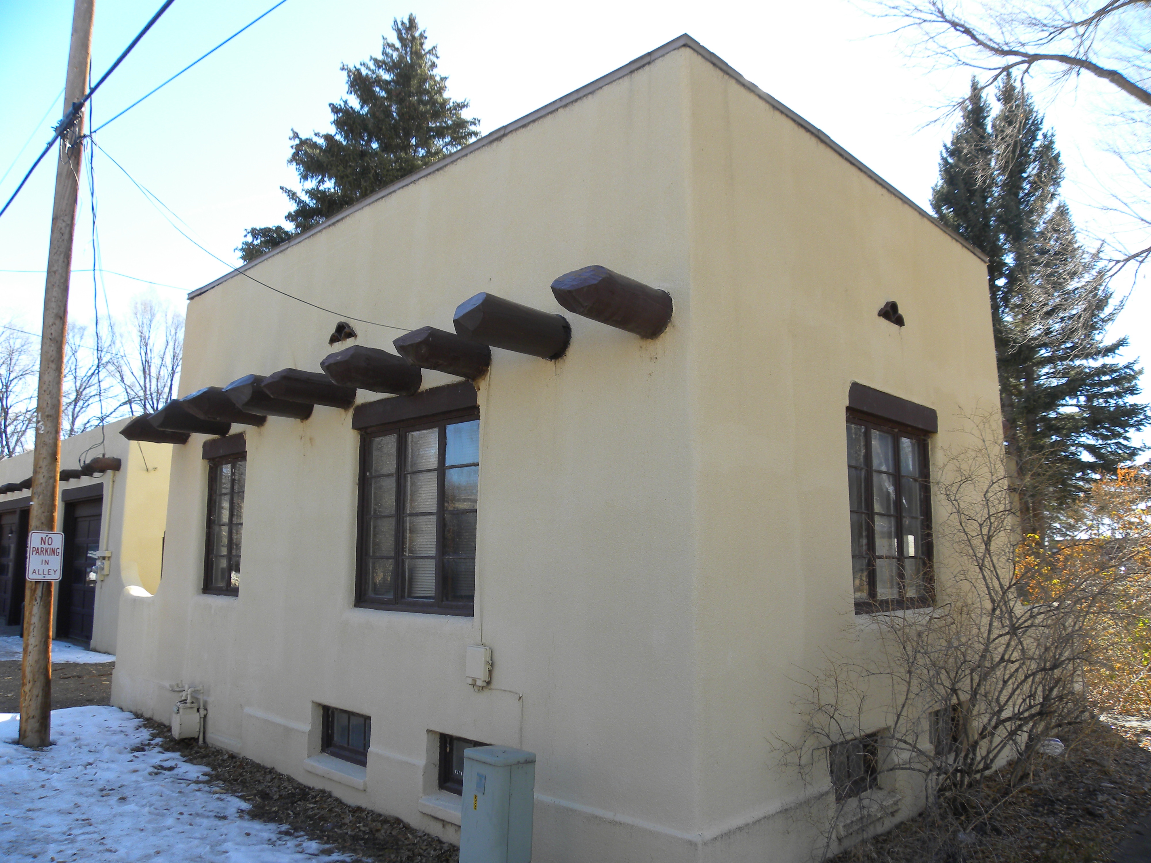 The Saguache Ranger House, first built in 1939 as a ranger residence, office and garage, underwent rehabilitation through HistoricCorps, a national volunteer workforce program that focuses on preservation projects.